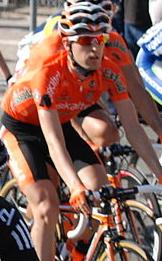 The famous Giro D'Italia passed through Pisa and finished the third leg of the race in Livorno on May 10. Photos by Chiara Mattirolo, U.S. Army Garrison Livorno